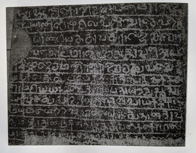 Kantalay Chola Lankeswaran inscription